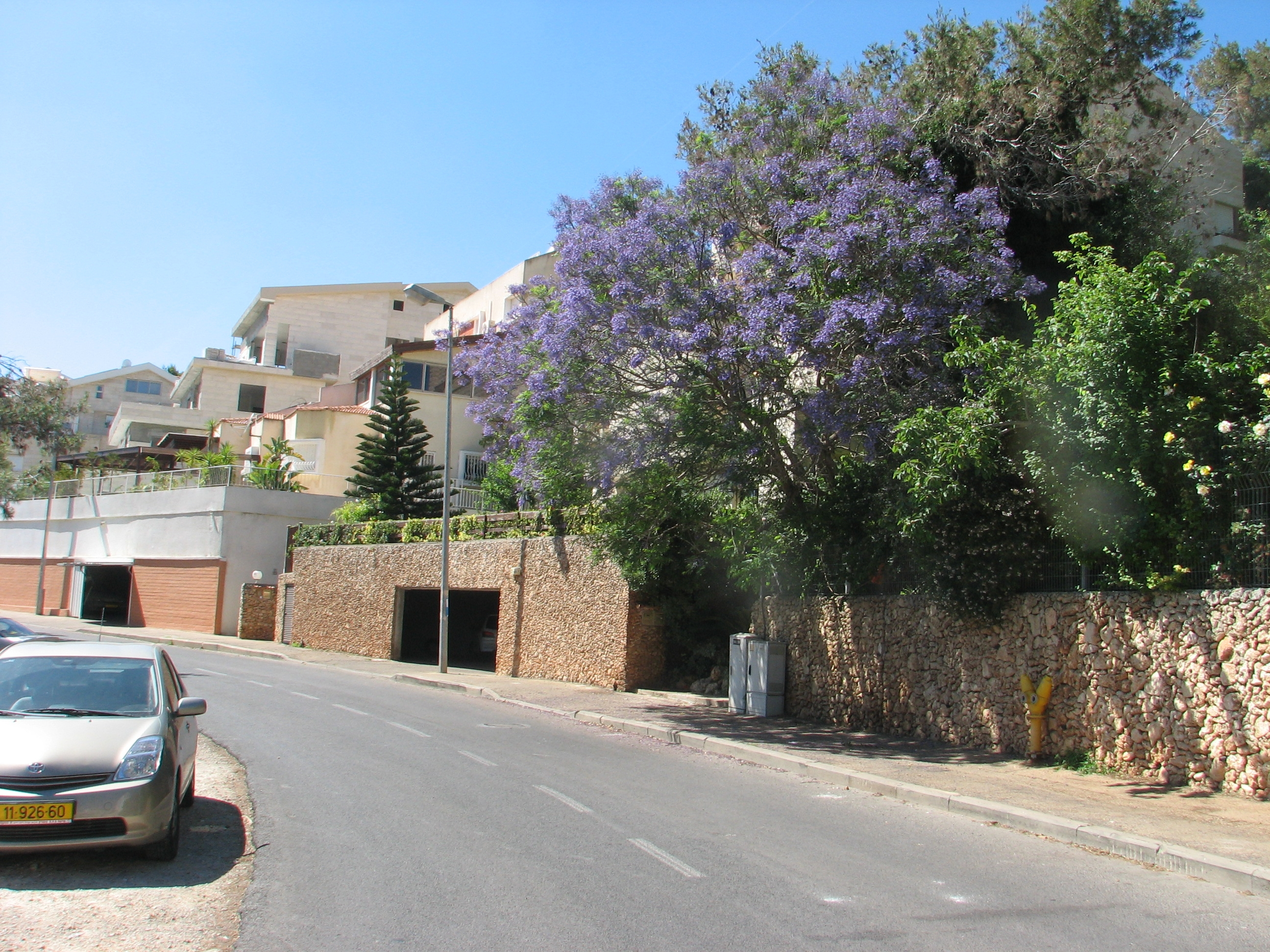 Typical winding street of Ramat Golda, Denia, HFA.